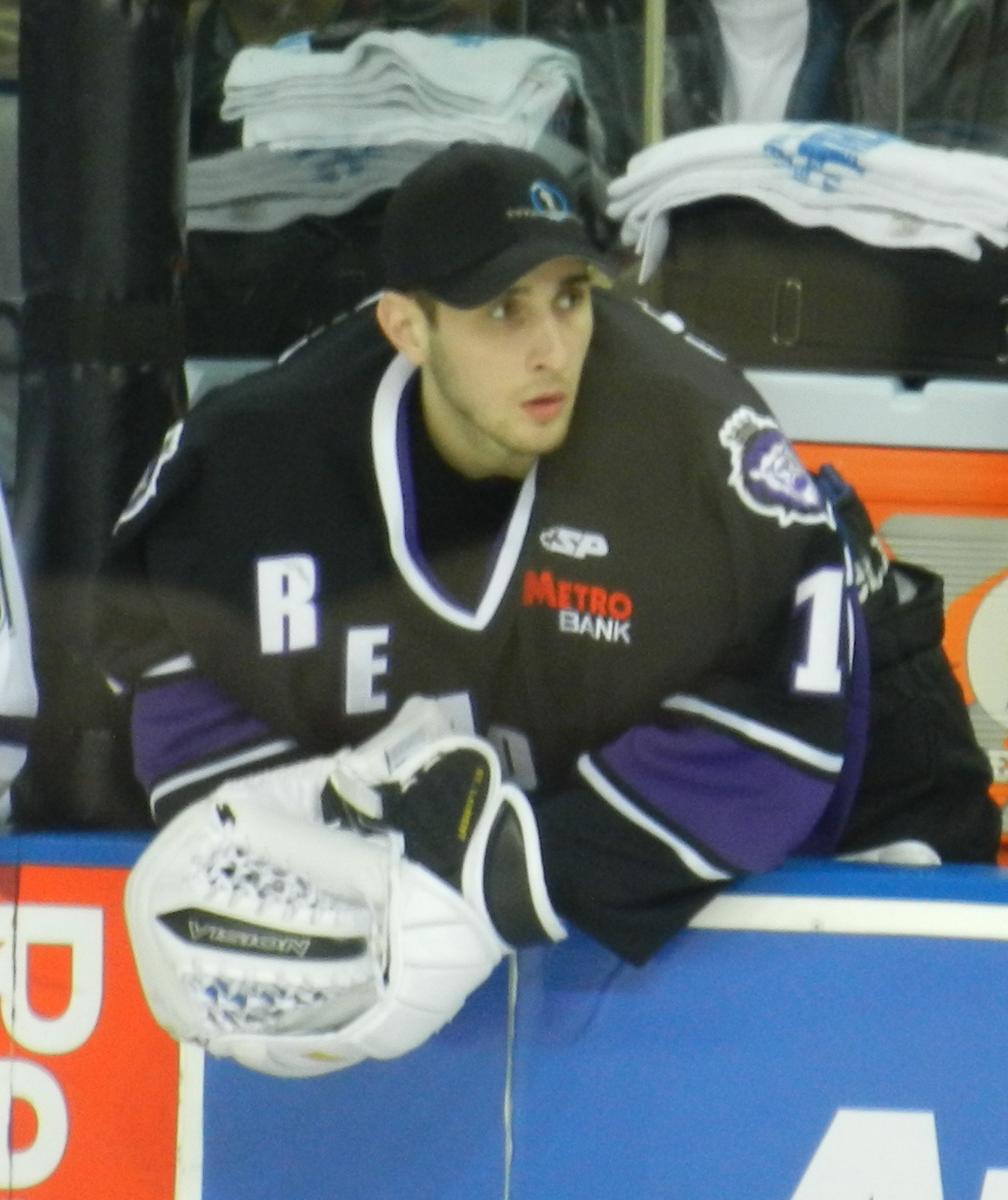 Karel St. Laurent with the ECHL's Reading Royals during the 2011-12 season.